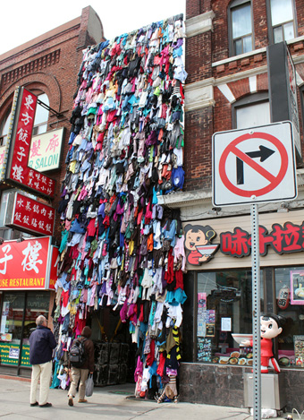 By Maria Ezcurra Presented as part of "The possibility of everything," Scotia Bank Nuit Blanche, Toronto, Canada.